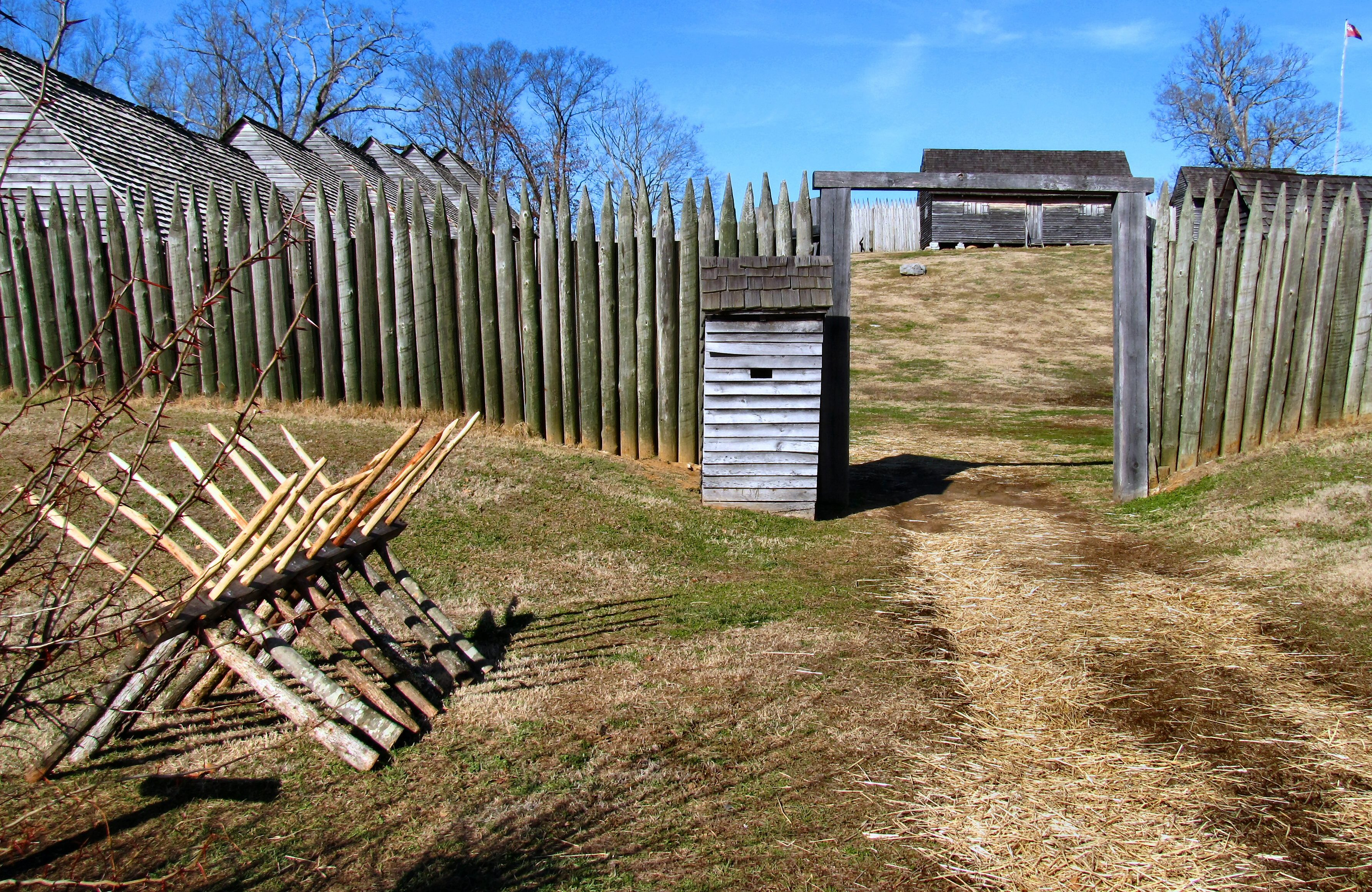 The south entrance to the reconstructed Fort Loudoun in Monroe County, Tennessee, United States. Chevaux de frise on the left.